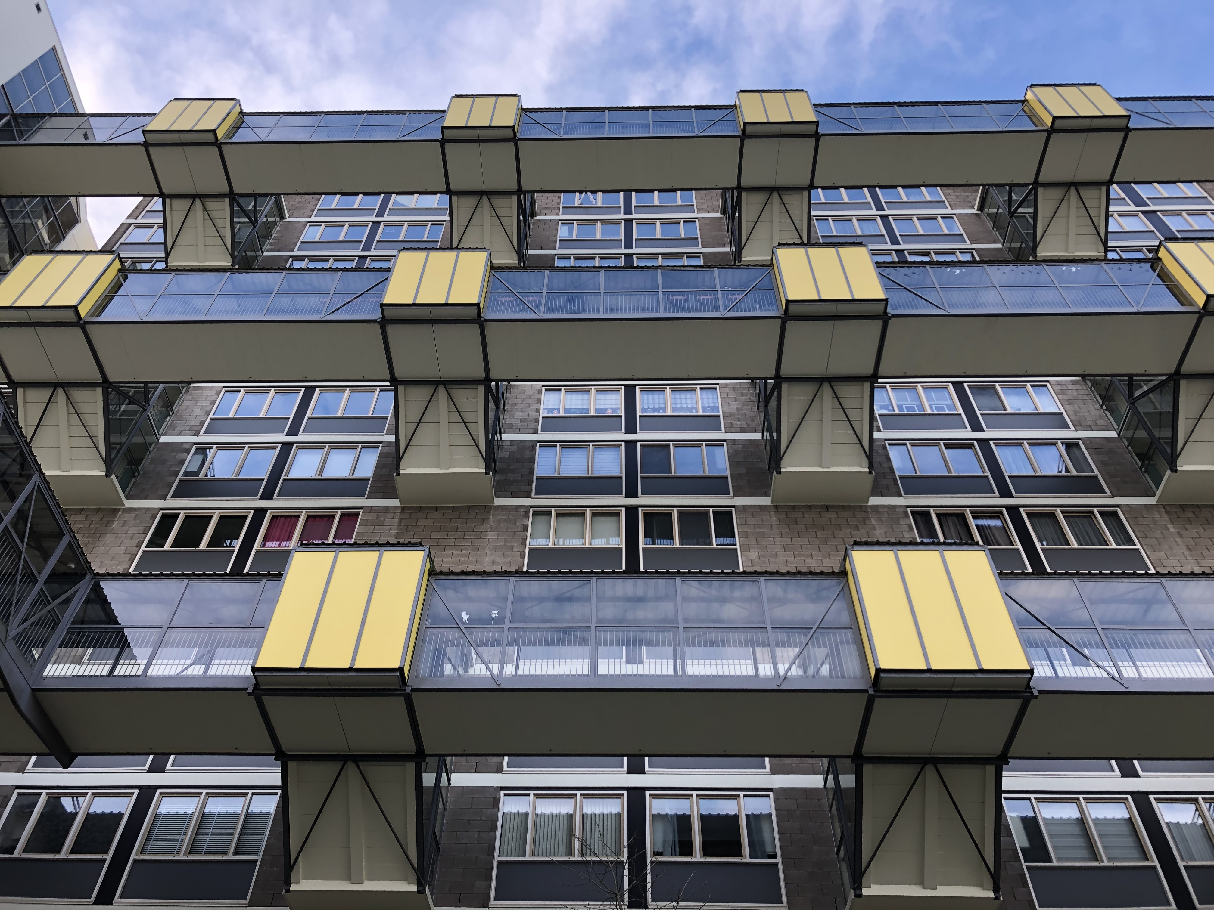 "Hangbrugmaisonettes", apartment complex in Amsterdam, the Netherlands.